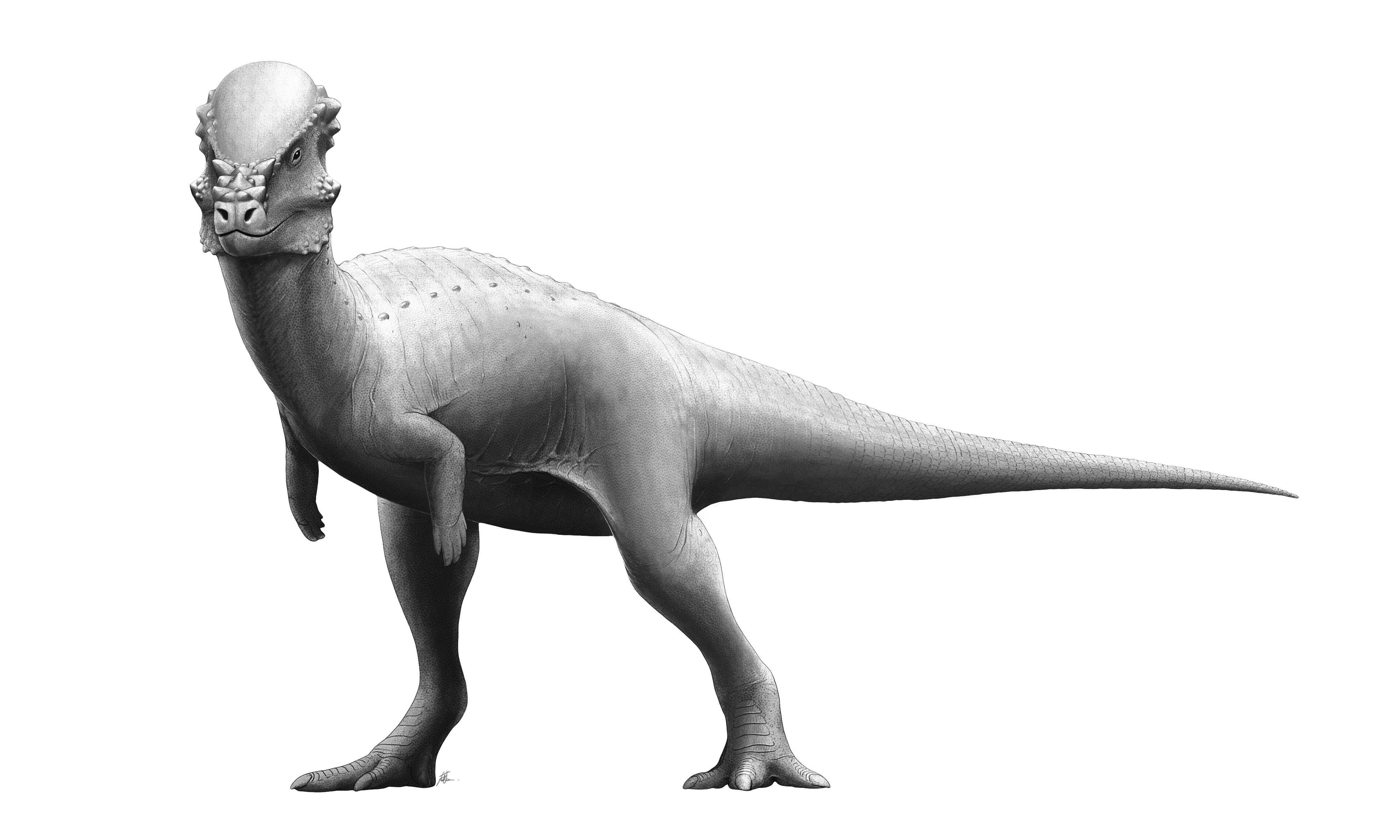 Reconstruction of Pachycephalosaurus